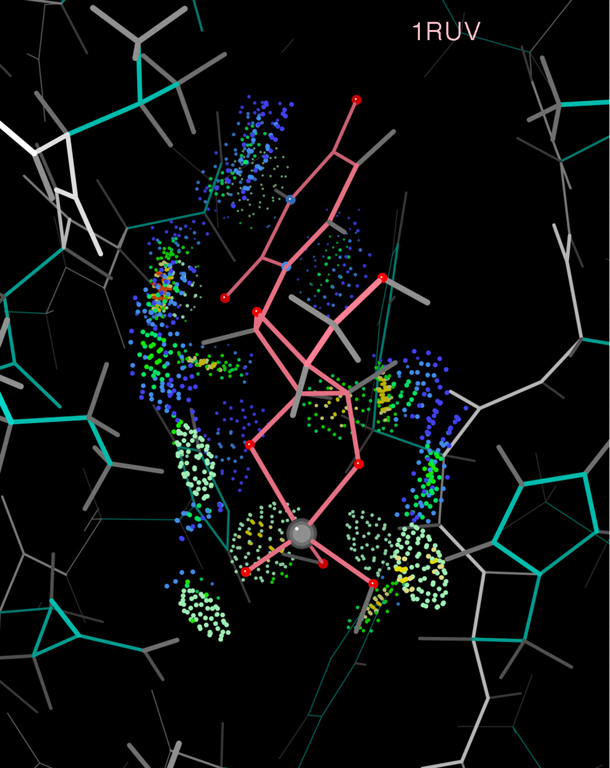 All-atom contact dots showing tight contact between the ribonuclease A enzyme and the Uridine Vanadate transition-state-mimic inhibitor (PDB file 1RUV), with hydrogen bonds as pillows of pale green dots and favorable van der Waals contacts in blue and green. Contacts calculated by Probe, displayed in Mage.